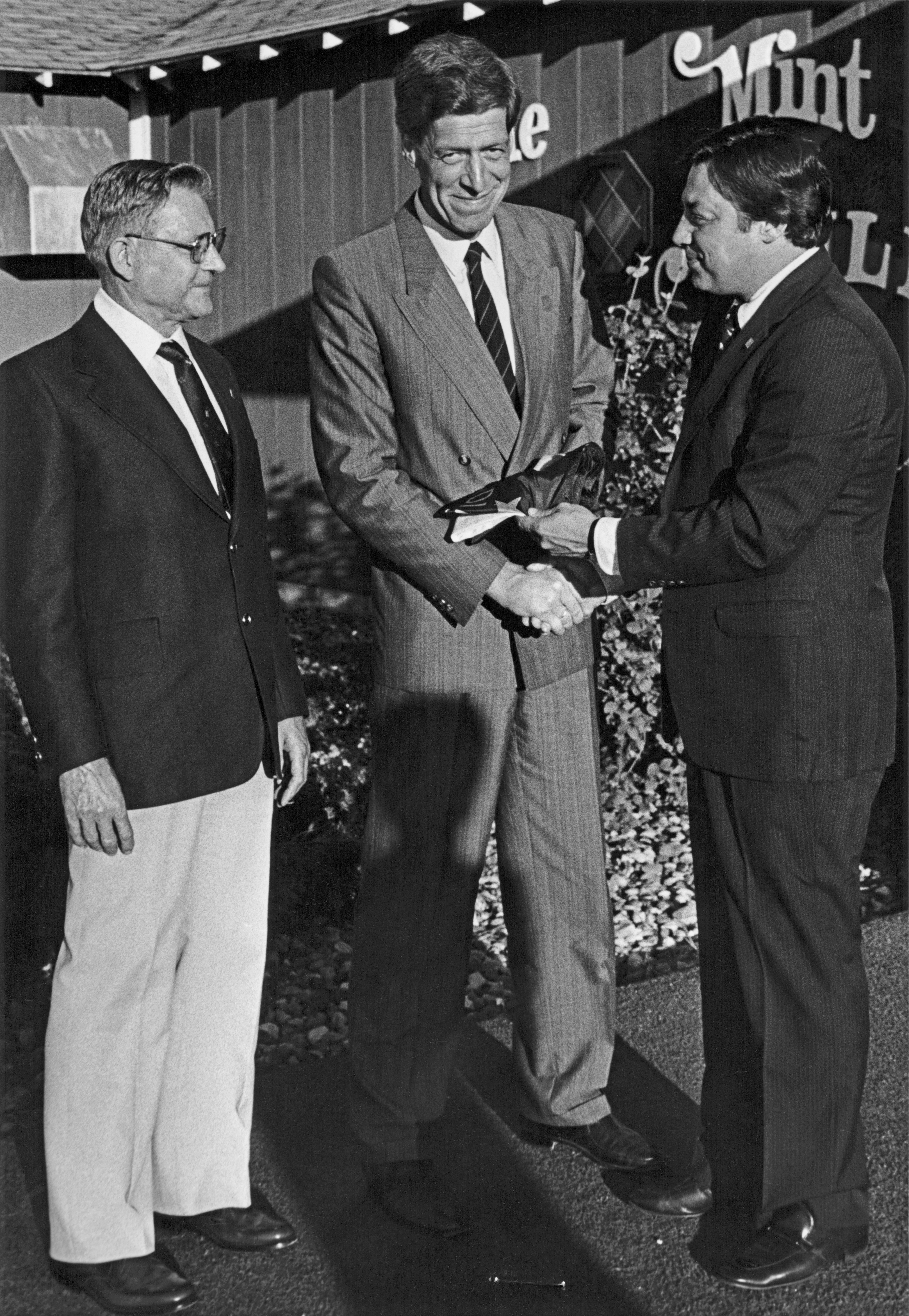 Mayor Henning Scherf of Bremen, Germany, accepts an Indiana flag from members of the town council of Bremen, Indiana, Charles Beery & Greg Mishler - 1986